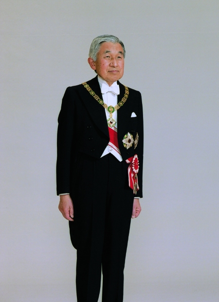 Emperor Akihito acceded to the throne as the 125th Emperor on January, 1989.